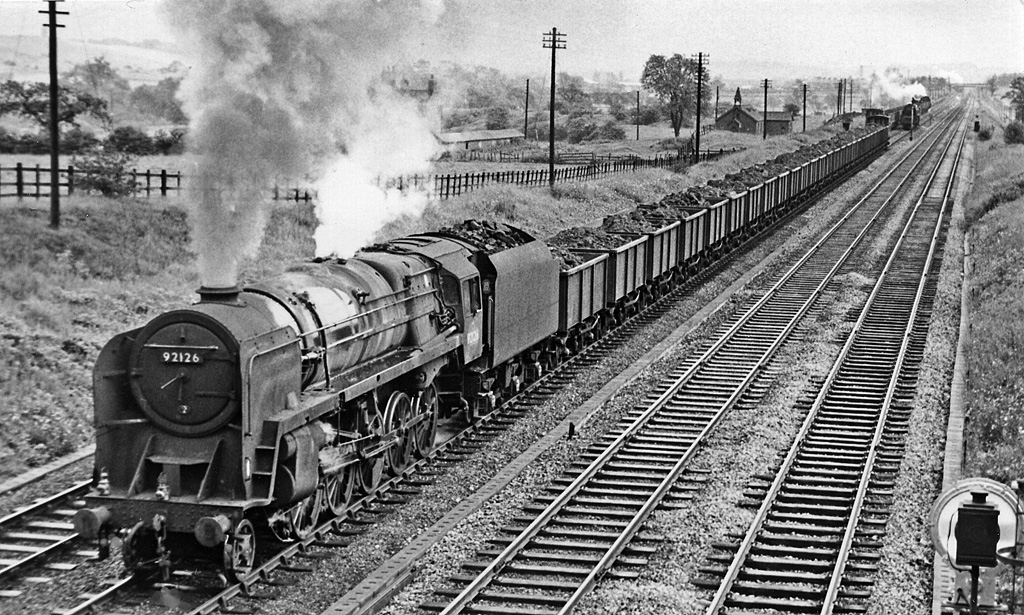 Down iron ore train on Erewash Valley line near Stoneyford Junction, New Brinsley, Nottinghamshire, Great Britain. View southward, towards Langley Mill, Toton and Trent Junction. (For further details on line, see SK4449 : Up Goods train at Stoneyford Junction Box, Erewash Valley main line ). The locomotive is BR Standard 9F 2-10-0 No. 92126. Note the light engine following the train on the same track (Permissive Block working), also the up train receding into the distance. The illuminated circular object at bottom right is probably a temporary speed restriction warning sign, for mining subsidence.